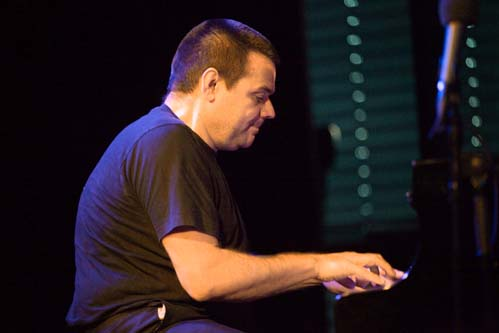 Michiel Braam by Tom Beetz